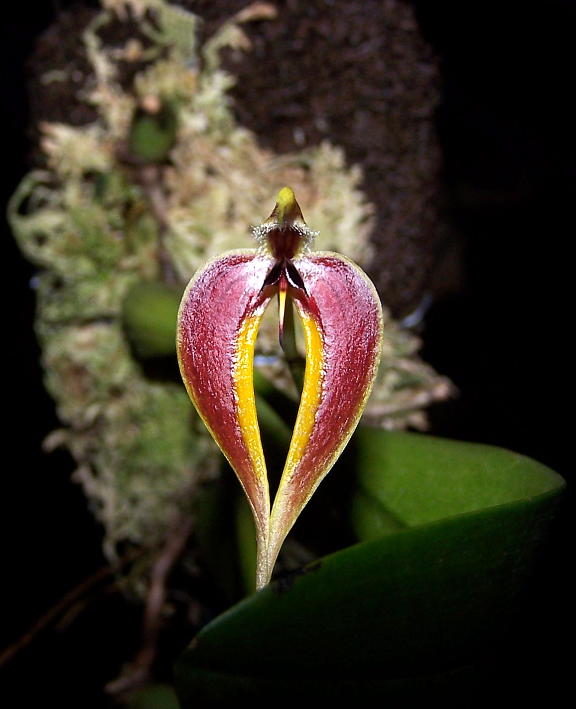 Bulbophyllum maxillare